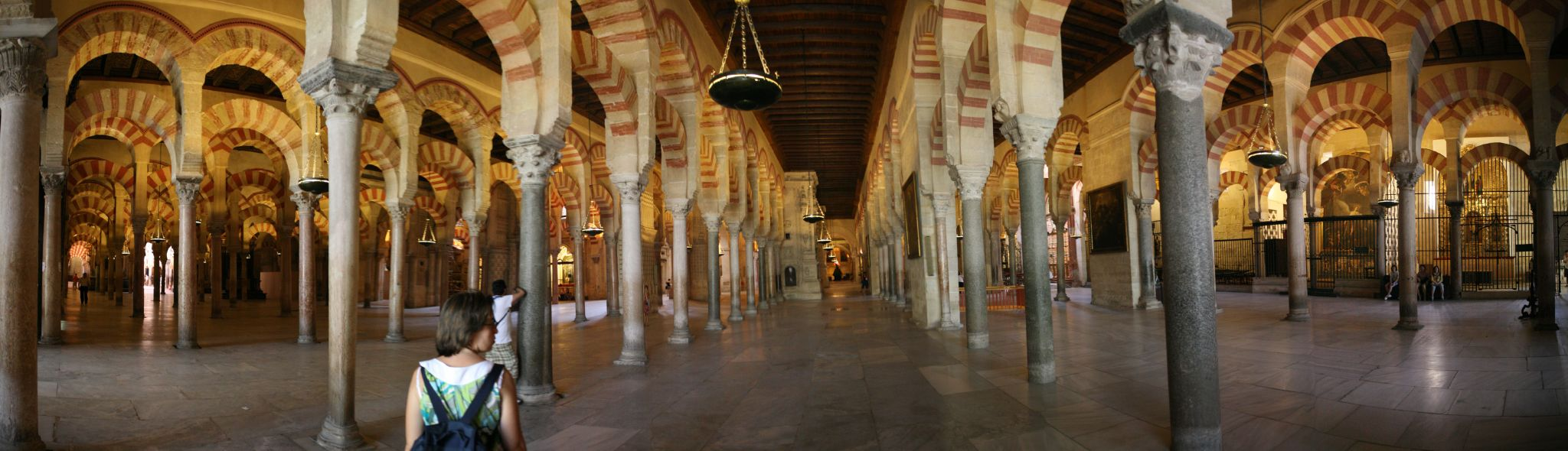 I love this place. Not least of all because of the knowledge that it's been a sacred place for Romans, Visigoths, Moors and Castillians. Perhaps it's as a result of the combined prayers of all those people throughout the centuries that the place exudes such a sense of peace and tranquillity.